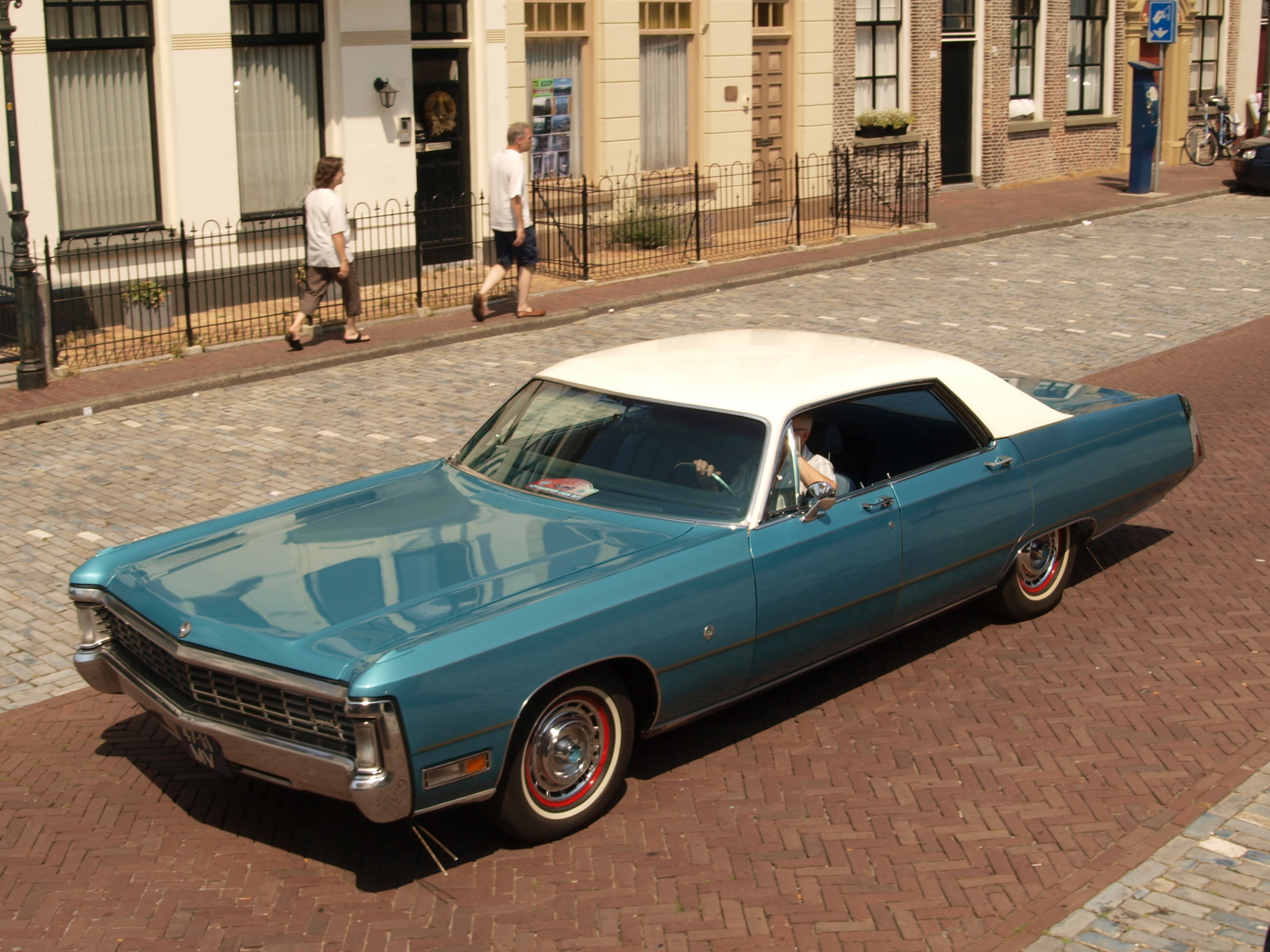 Photographed at Kampen, The Netherlands. OLYMPUS DIGITAL CAMERA